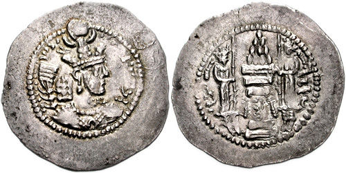 Sassanid king. Yazdgard II (438-457 AD). AR Drachm (29mm, 3.68 gm, 3h). Crowned bust right / "Fire" in Pahlavi to left, 'nwky' in Pahlavi to right, fire altar with attendants, holding staves, and ribbon, "rast" in Pahlavi on central column. Göbl I/1; Alram 869. EF, light die rust. Ex Bellaria Collection.